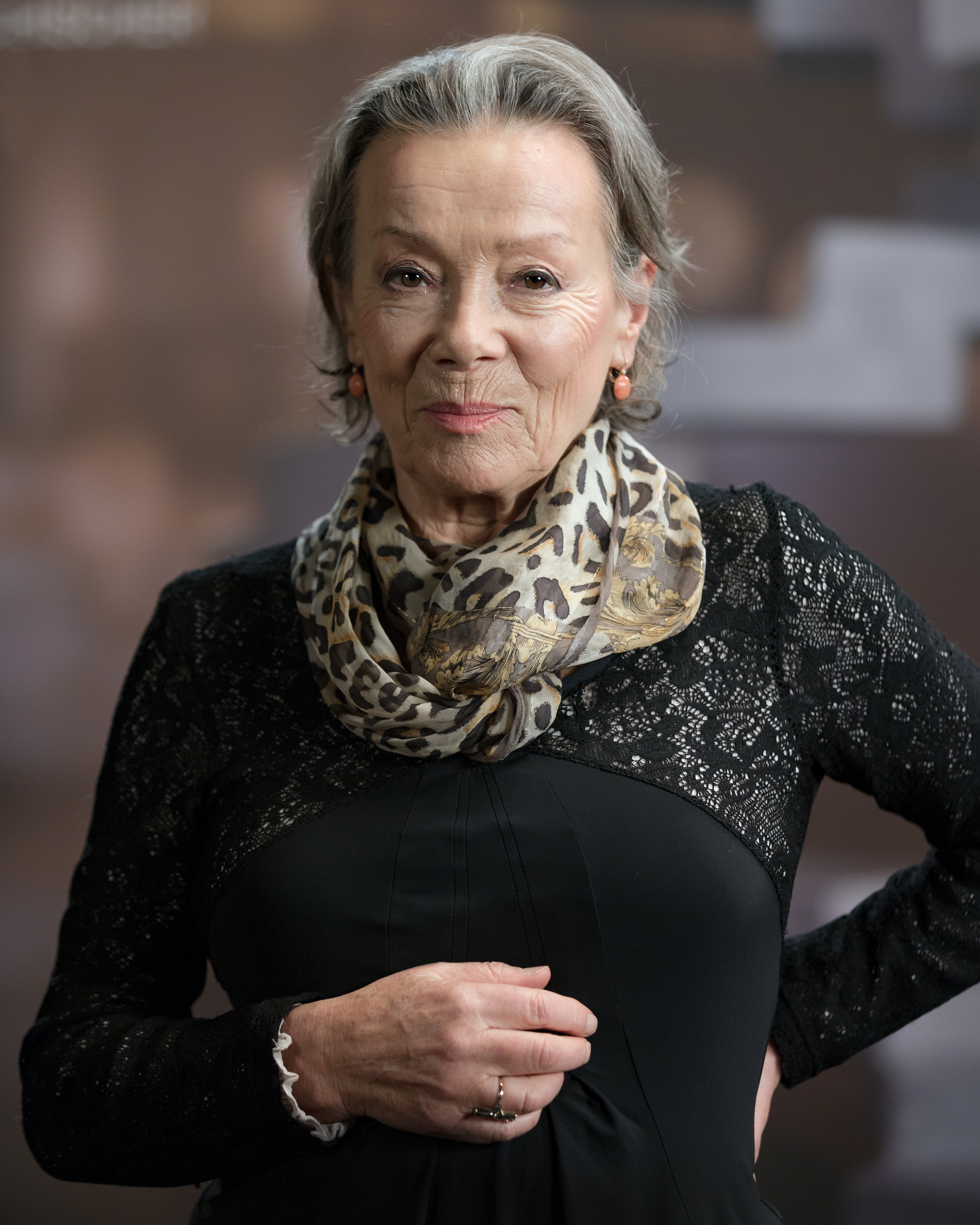 Krista Stadler at the Austrian Film Awards 2017 (Rathaus, Vienna,Austria).